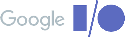 This is the logo for the Google I/O annual developers conference. It is current as of the 2016 conference.